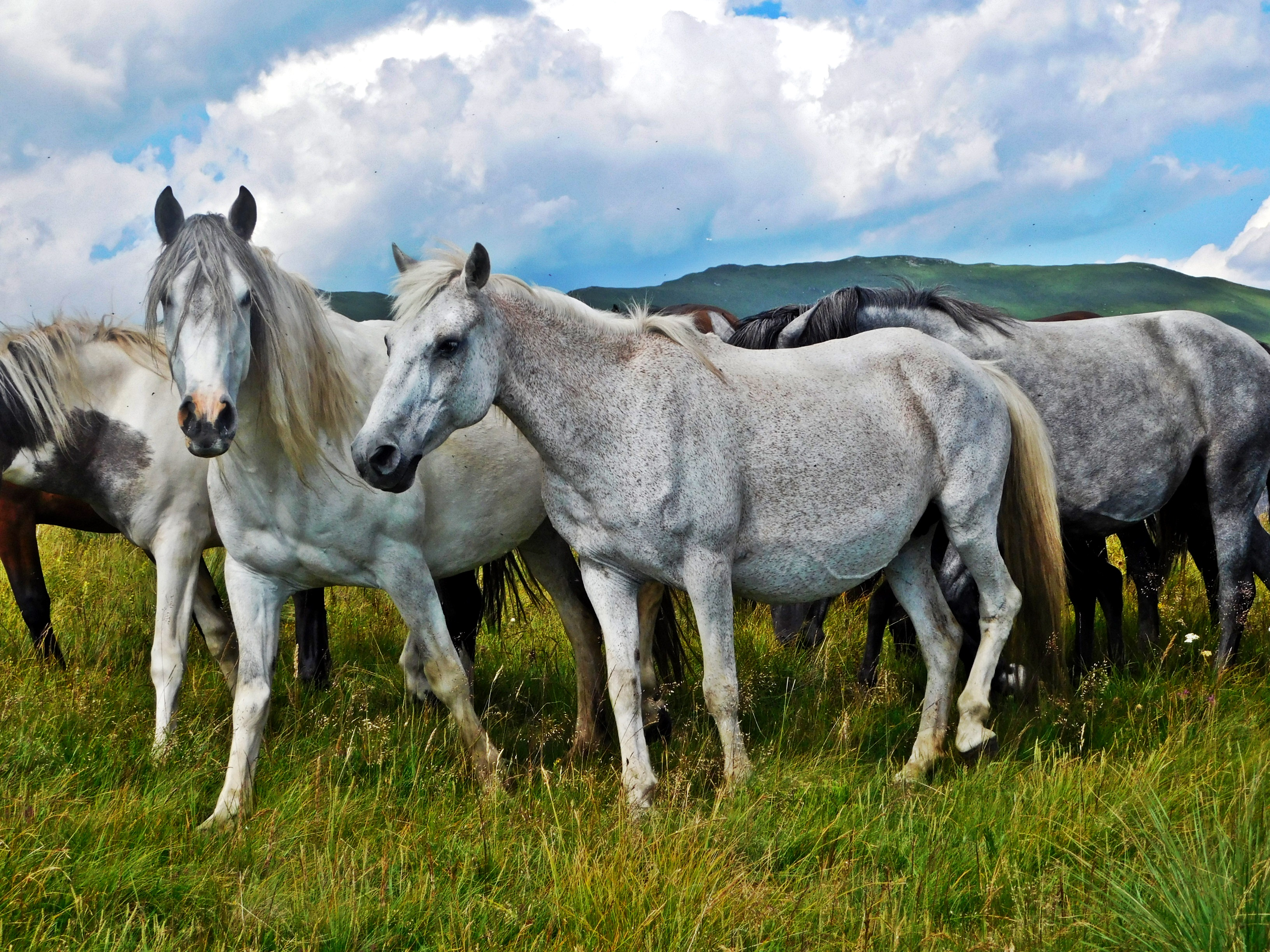 Divlji konji na Staroj planini